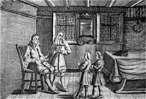 Wolfgang Helmhardt von Hohberg: "Georgica curiosa". Illustration: Father, children and private tutor.